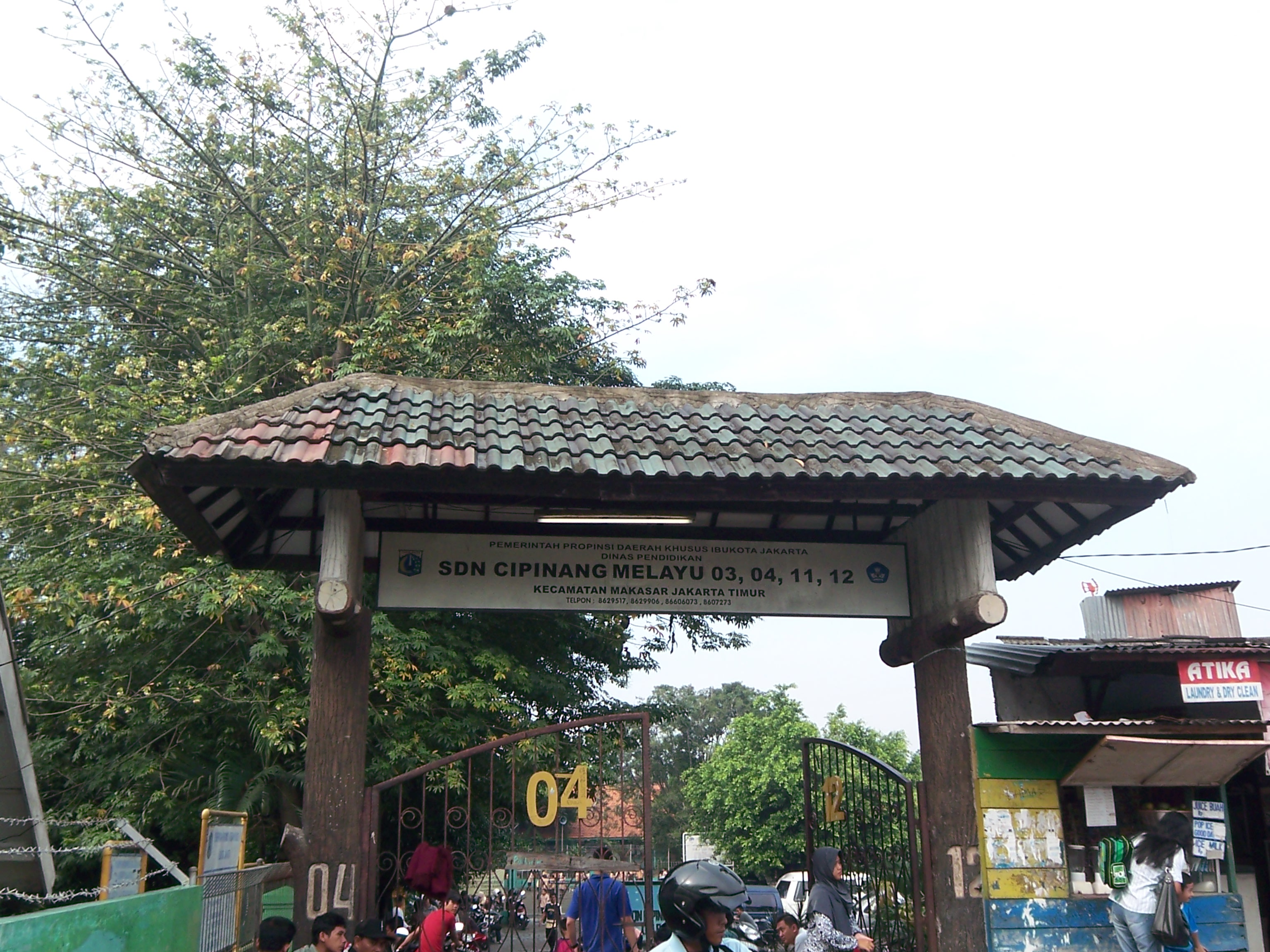 This is the main entrance into the complex State Elementary School Cipinang Melayu 03 Pagi, State Elementary School Cipinang Melayu 11 Petang, State Elementary School Cipinang Melayu 04 Pagi and State Elementary School Cipinang Melayu 12 Petang, Jakarta, Indonesia.